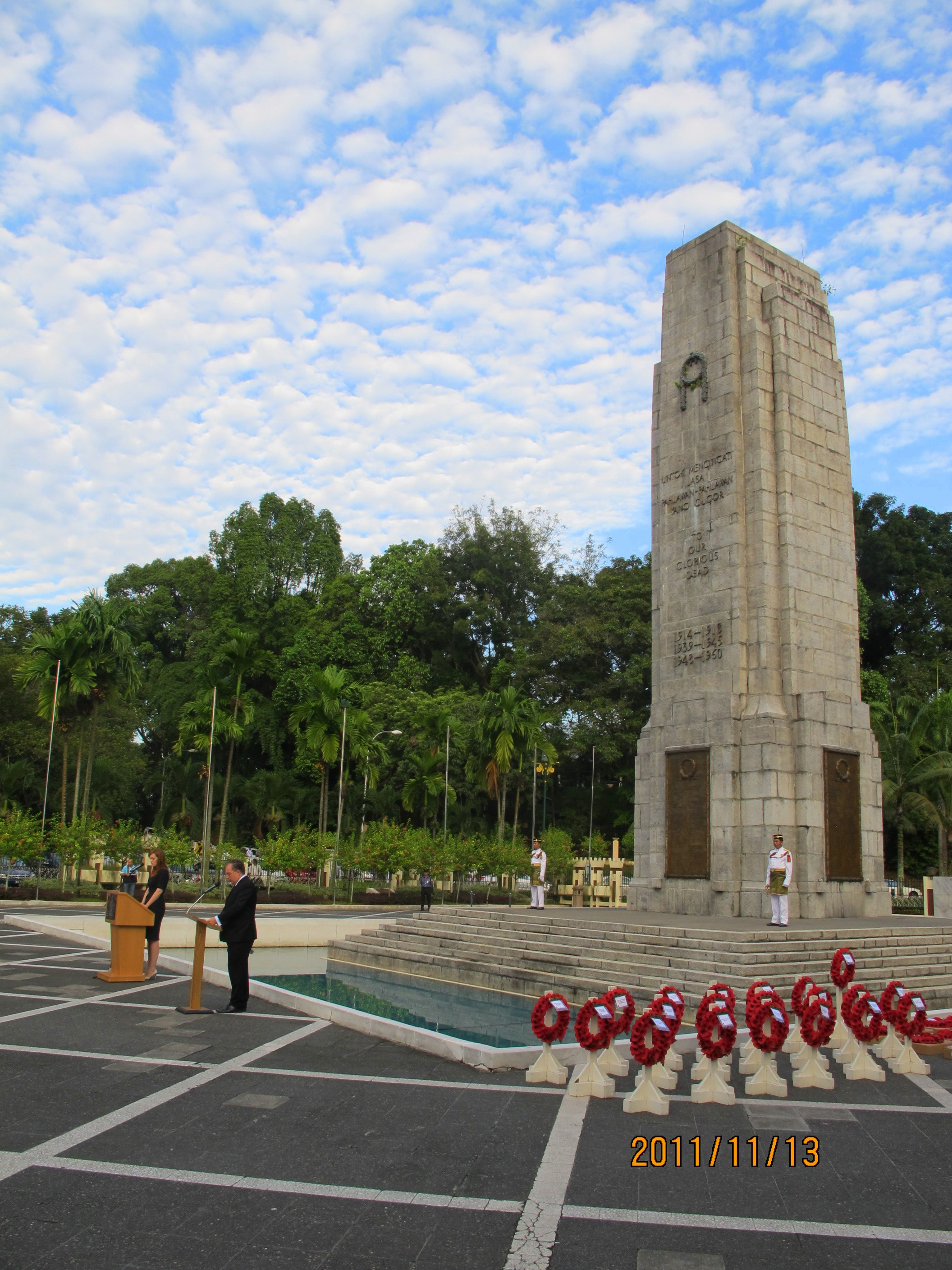 KL Cenotaph Remembrance Sunday 13-Nov-2011. Brit Hi comm reads eulogy. Royal Malay Regiment buglers ready to play Last Post and Reveille